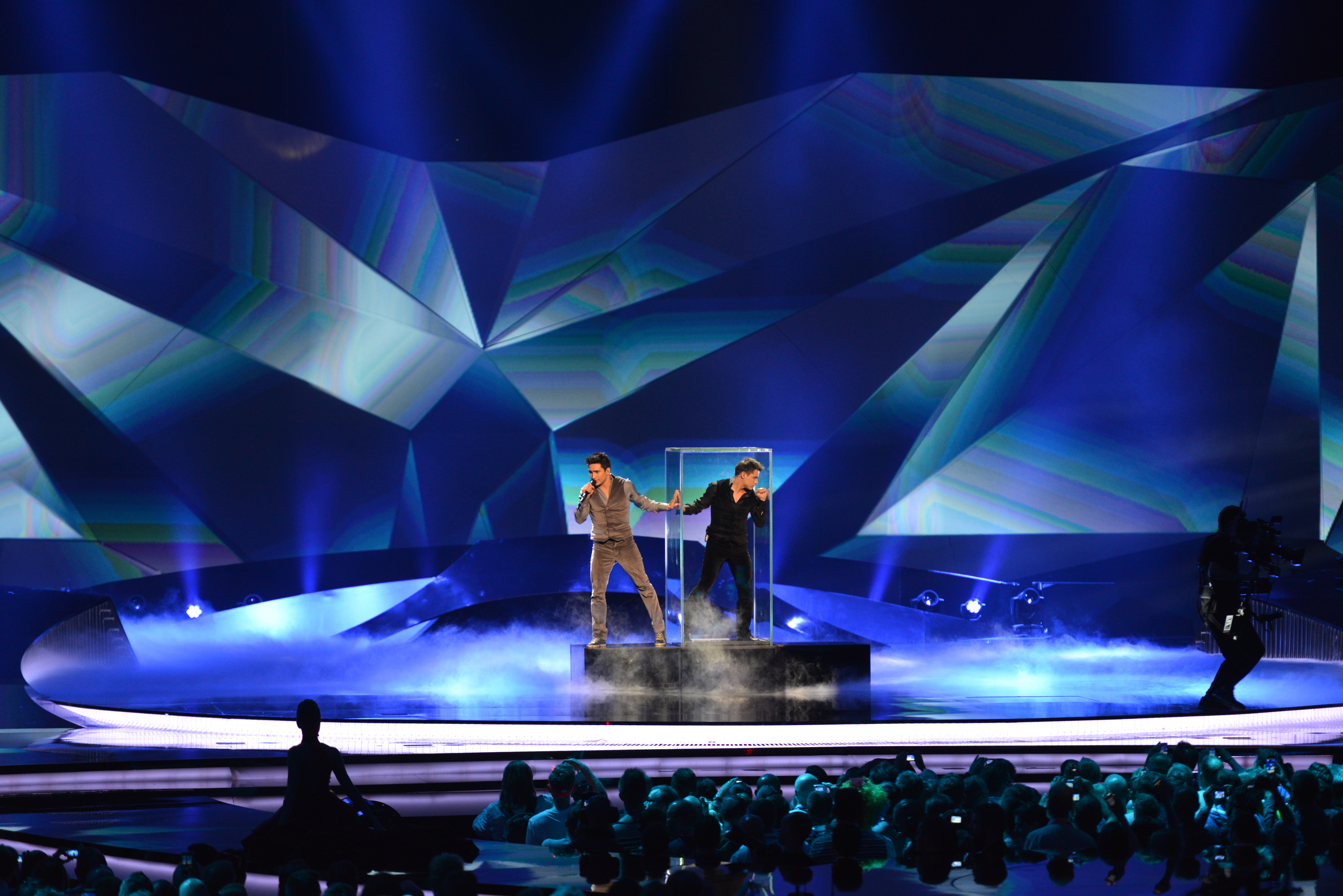 Farid Mammadov representing Azerbaijan with the song "Hold Me" during the second dress rehearsal of the second semi final of the Eurovision Song Contest 2013 in Malmö. (Help translate this text)